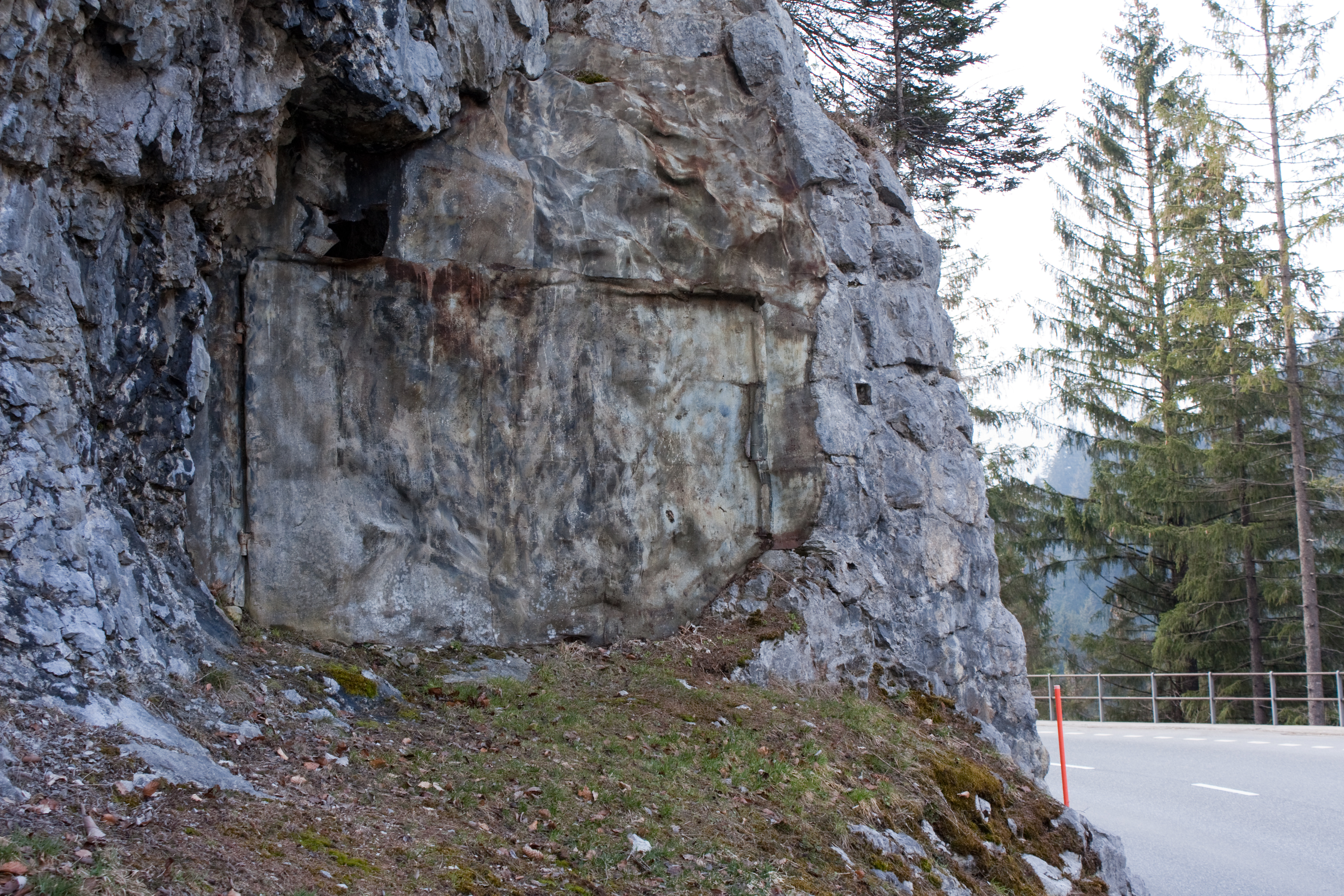 Camouflaged door in mountain